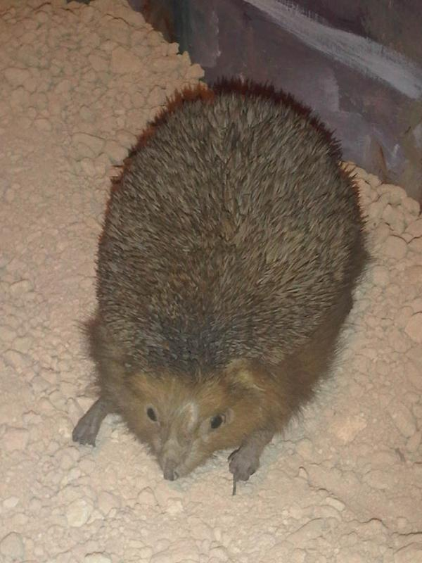 Taxidermied European Hedgehog (Erinaceus europaeus) at the National Museum of Natural History, Vilhena Palace, Republic of Malta.